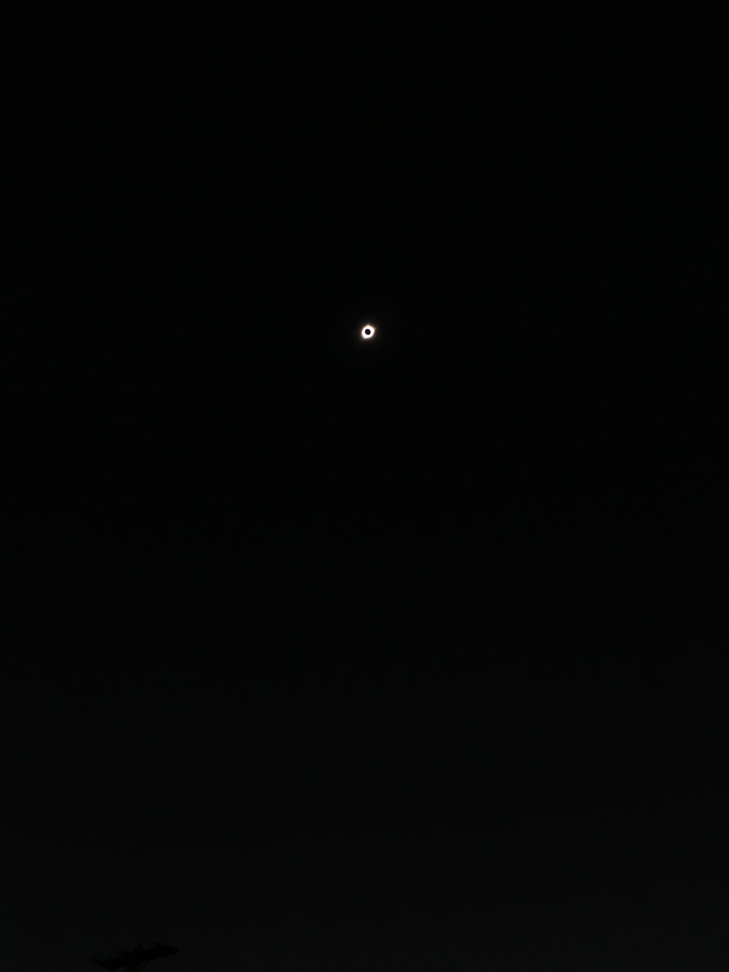 The solar eclipse of August 21, 2017 in Western Nebraska at 11:49:06am